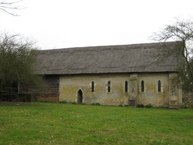 Chapel of St Stephen in Bures St Mary, Suffolk, England. A Grade I listed chapel.